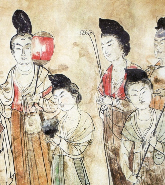 Cropped version of File:Court Ladies of the Tang.jpg